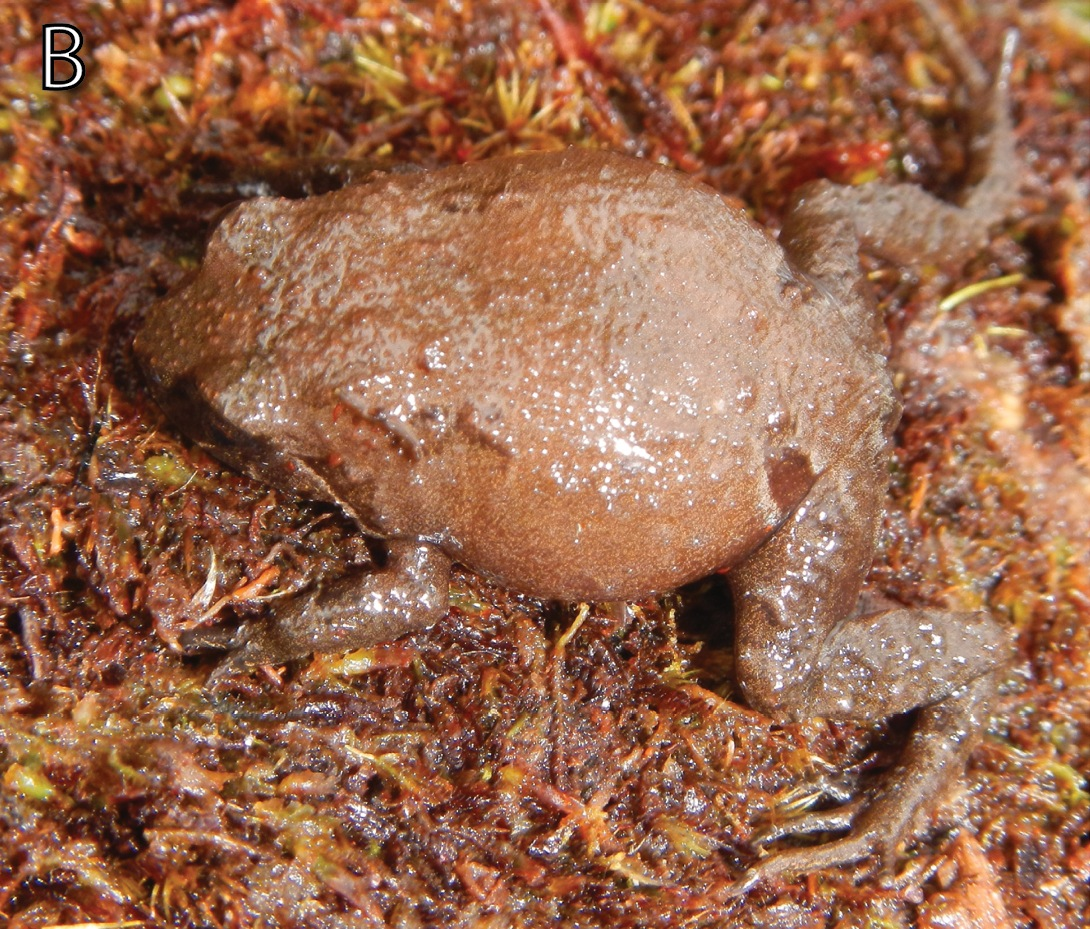 Paratype of Phrynopus badius (FMNH 282818) in dorsal view. Photo by E. Lehr.